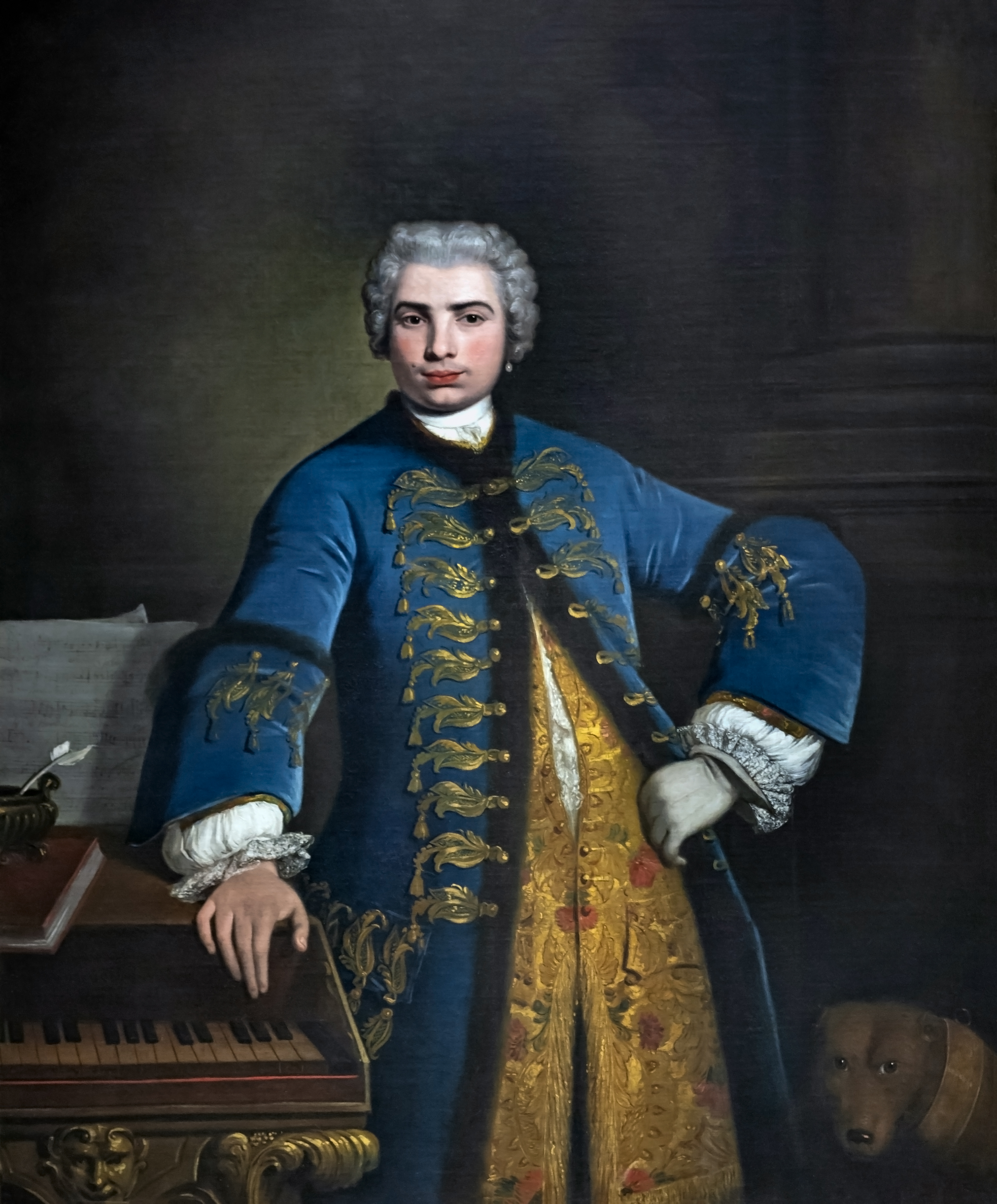 Depicted person: Farinelli – Italian opera singer